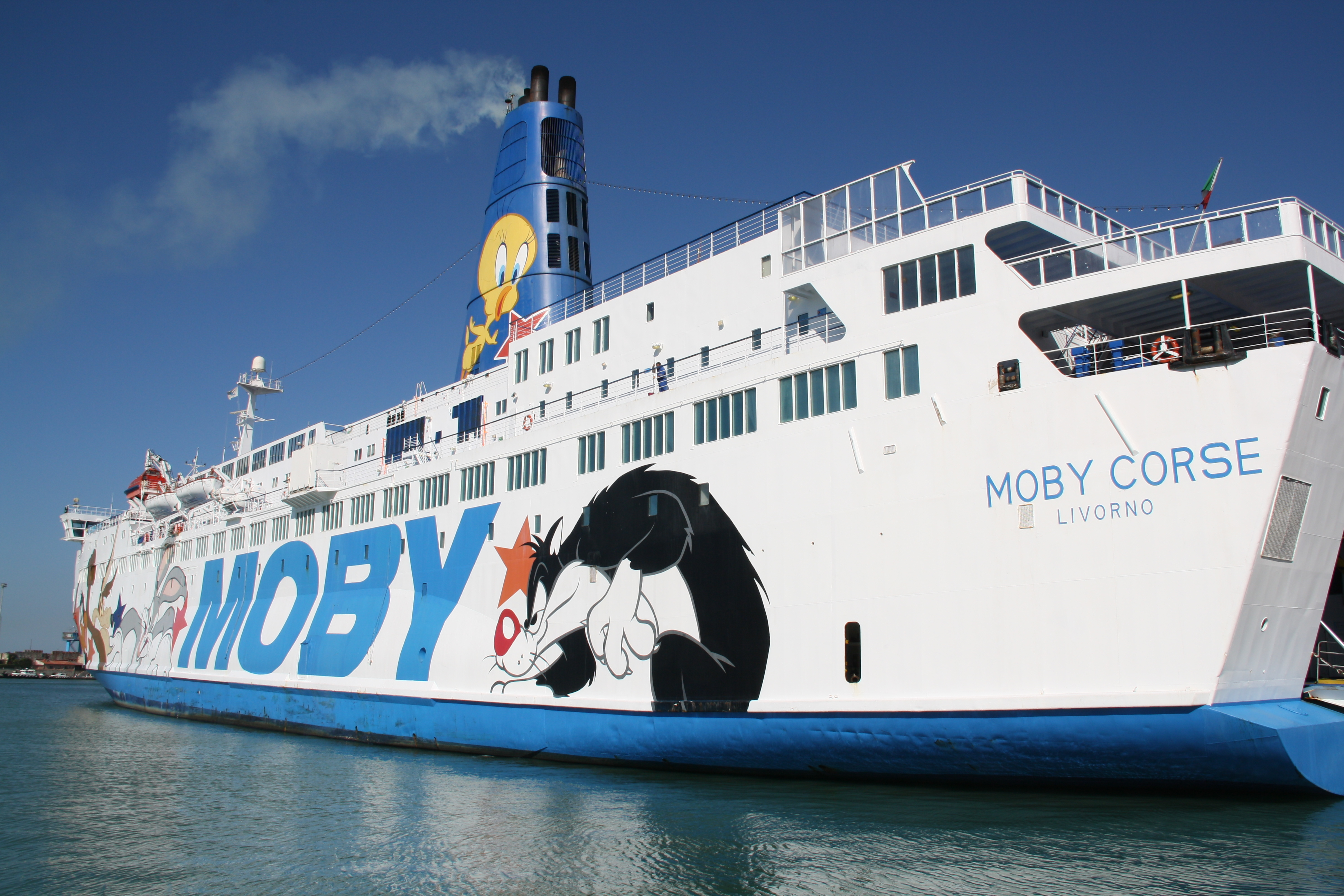 Italy, Port of Livorno. The ferry Moby Corse berthed at “Andana degli Anelli” wharf of “Porto Mediceo”.